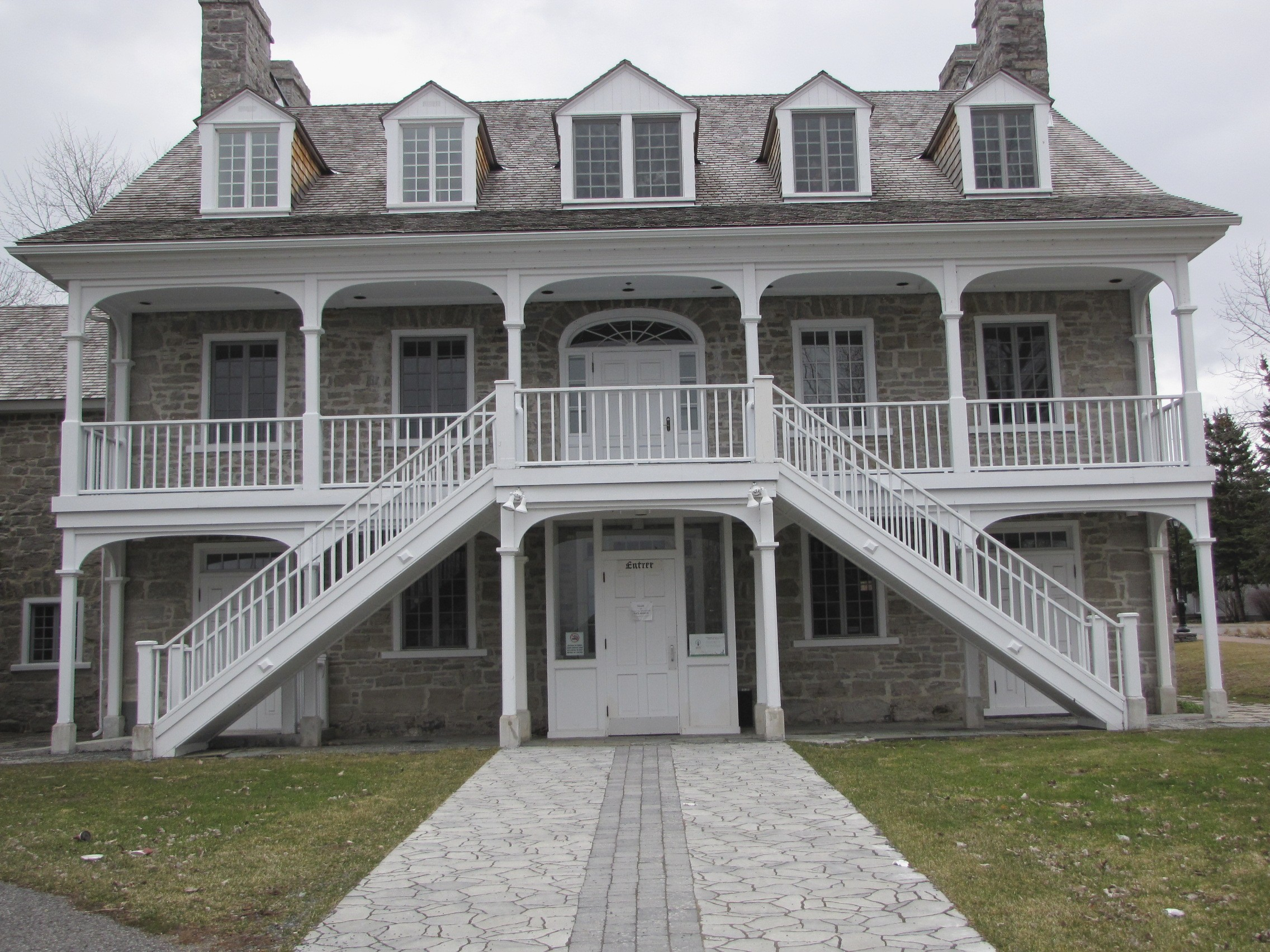 Auberge Symmes Museum in the Aylmer area, near the Aylmer Marina, Port of Call in Gatineau, QC.